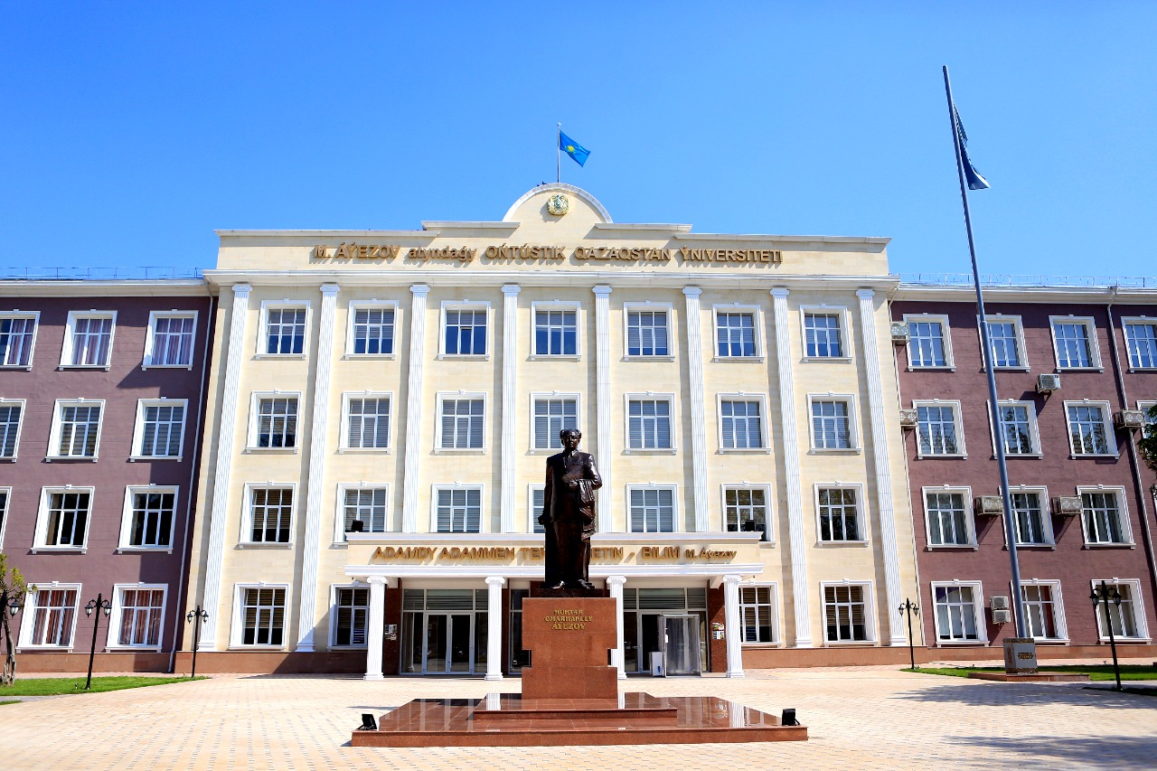 This is the Technology University (Shymkent).